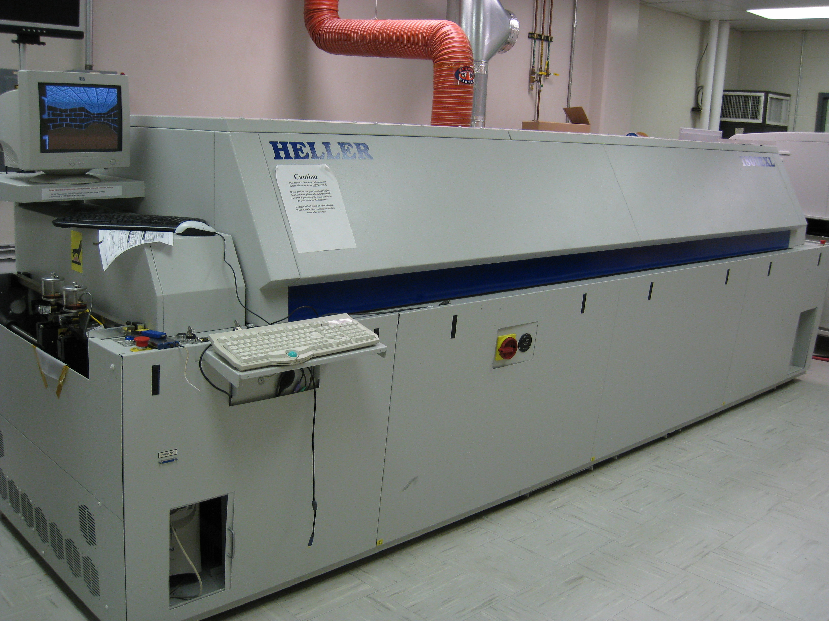 Reflow oven used for surface mount components assembly